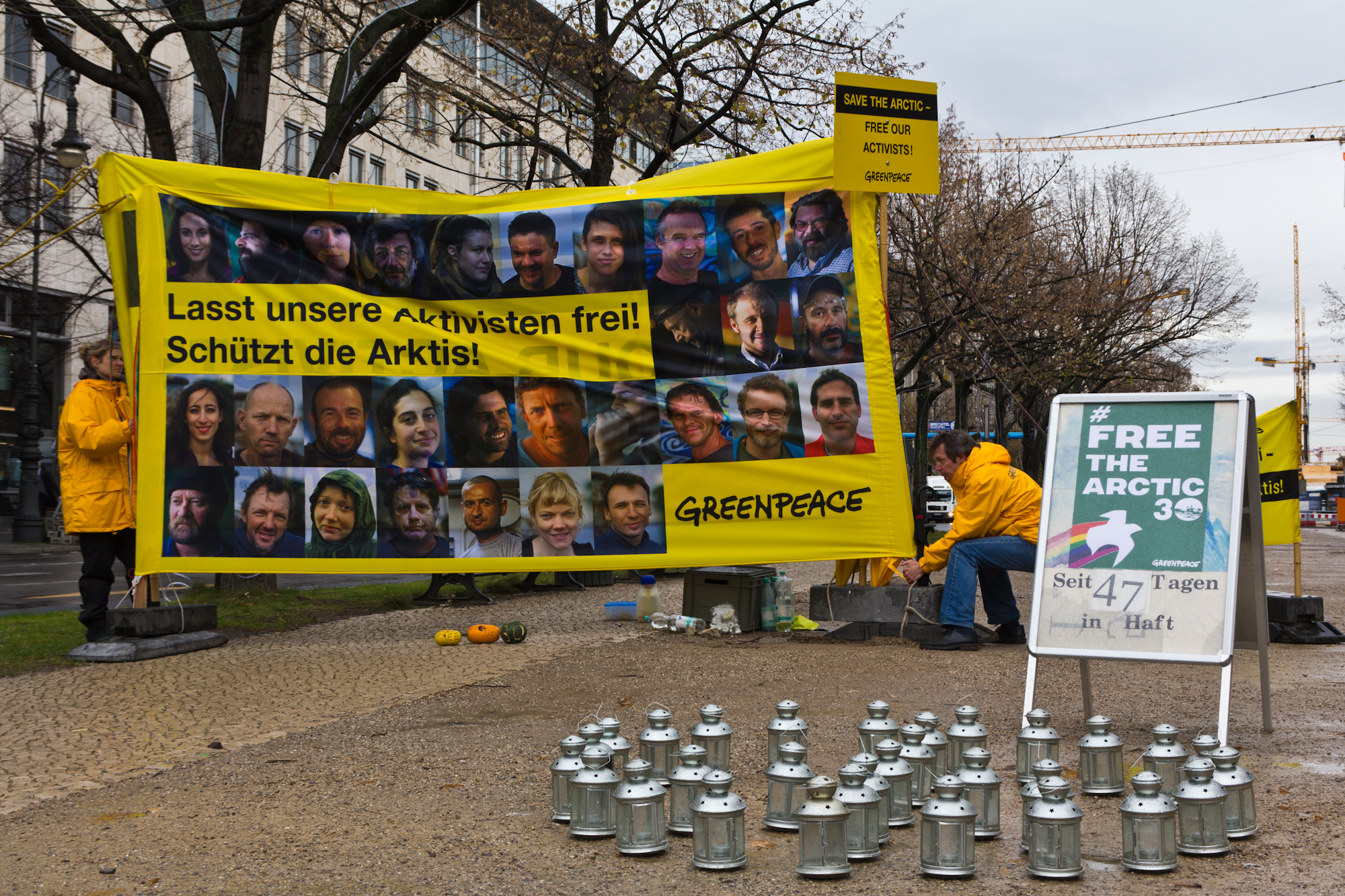 Vigil for the release of the Arctic 30 in front of the Russian Embassy on the Unter den Linden in Berlin.